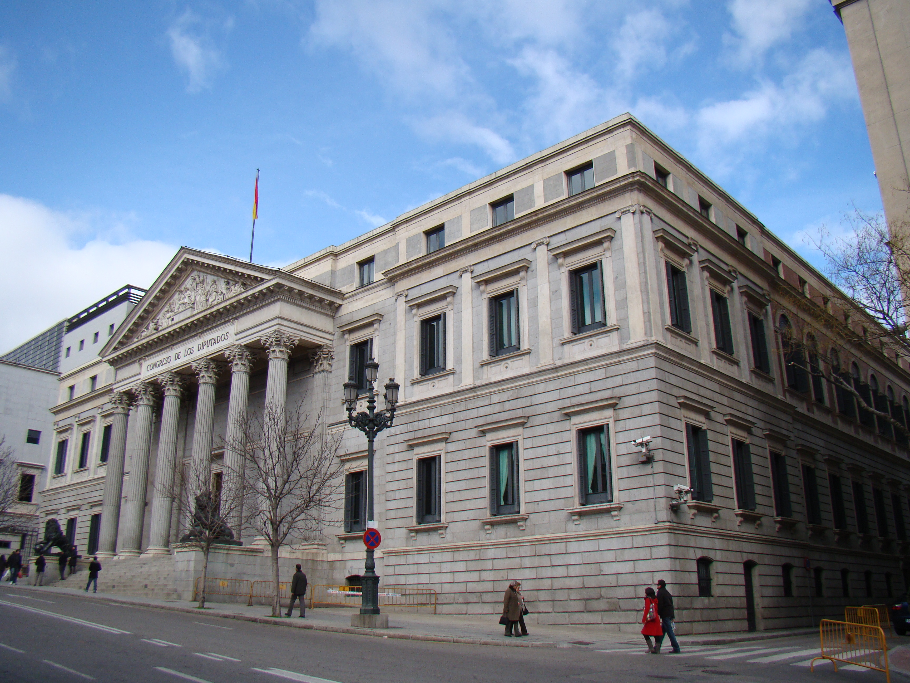 01S. Congress of Deputies (Inventory)Native nameCongreso de los Diputados de EspañaParent institutionCortes Generales LocationMadrid, (Spain)Coordinates40° 24′ 57″ N, 3° 41′ 48″ W Established1977Web page control : Q539149 VIAF: 134718539 ISNI: 0000 0001 1956 4410 GND: 1087366097 SUDOC: 03258167X BNF: 121729241 institution QS:P195,Q539149 Palacio de las Cortes (Inventory)Native namePalacio de las Cortes de MadridLocationMadrid, Spain.Coordinates40° 25′ 00″ N, 3° 41′ 59″ W Established1843–1850Web page control : Q9054619 VIAF: 173679168 ULAN: 500302409 LCCN: sh2013000847 GND: 4228303-6 BNE: XX189659 WorldCat institution QS:P195,Q9054619